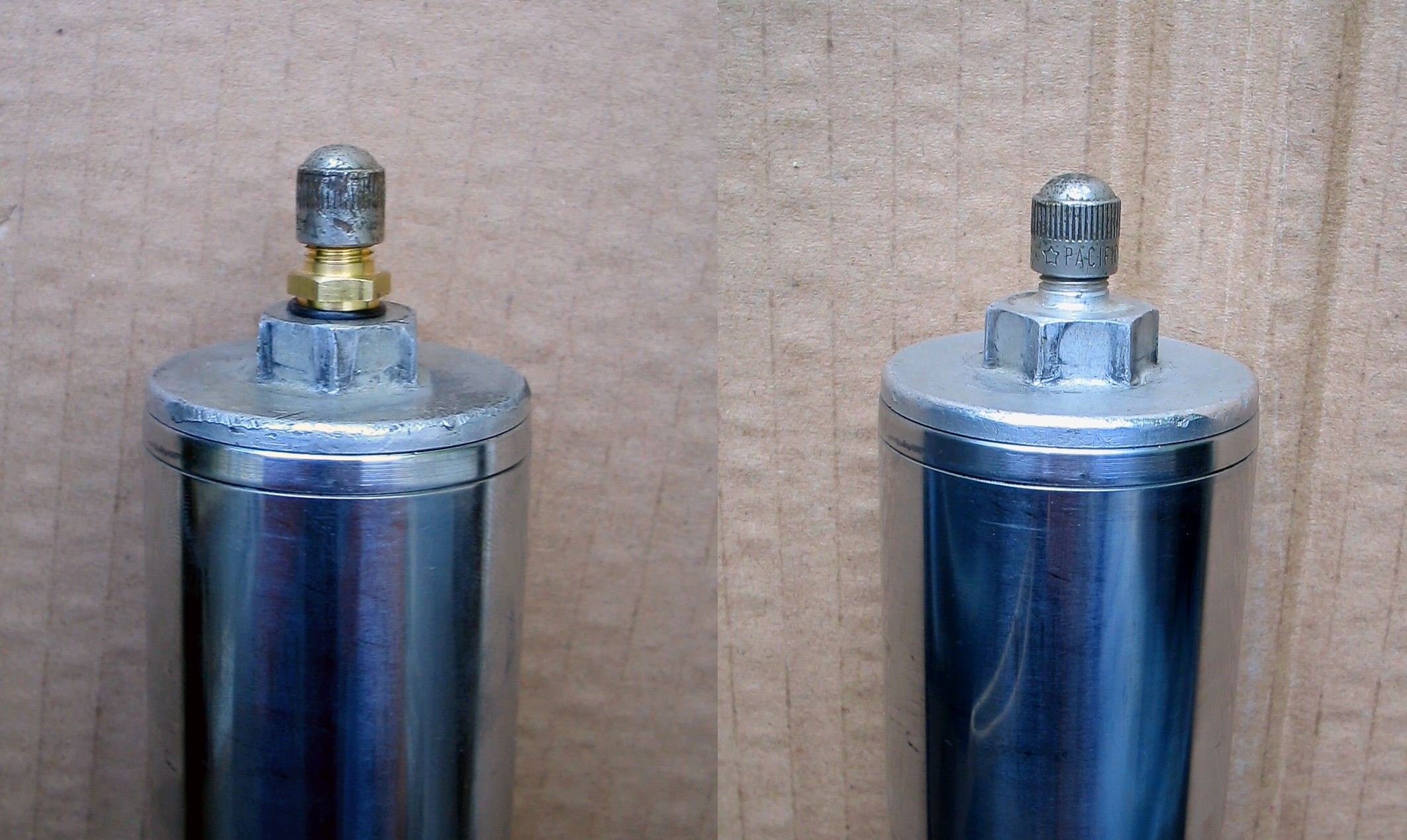 Fork caps with pneumatic valve for forks with pneumatic adjustment in two distinct versions.